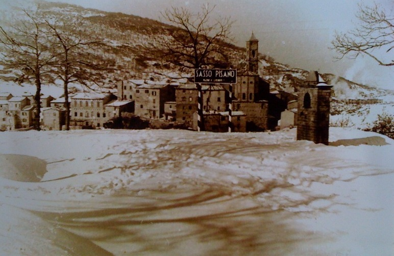 The medieval place of Sasso Pisano